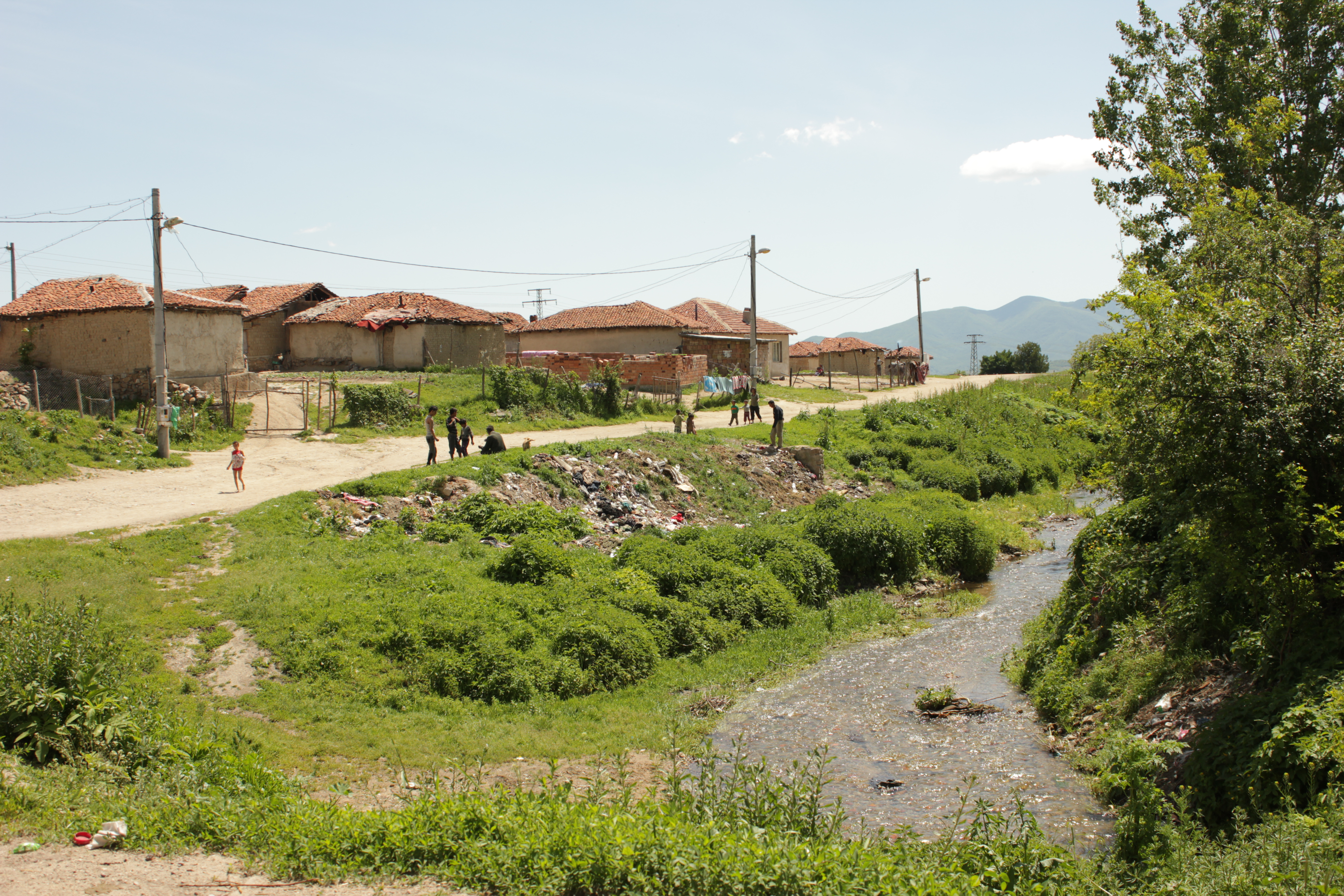 A street in Pevtsite, mostly populated with Roma (gipsies)